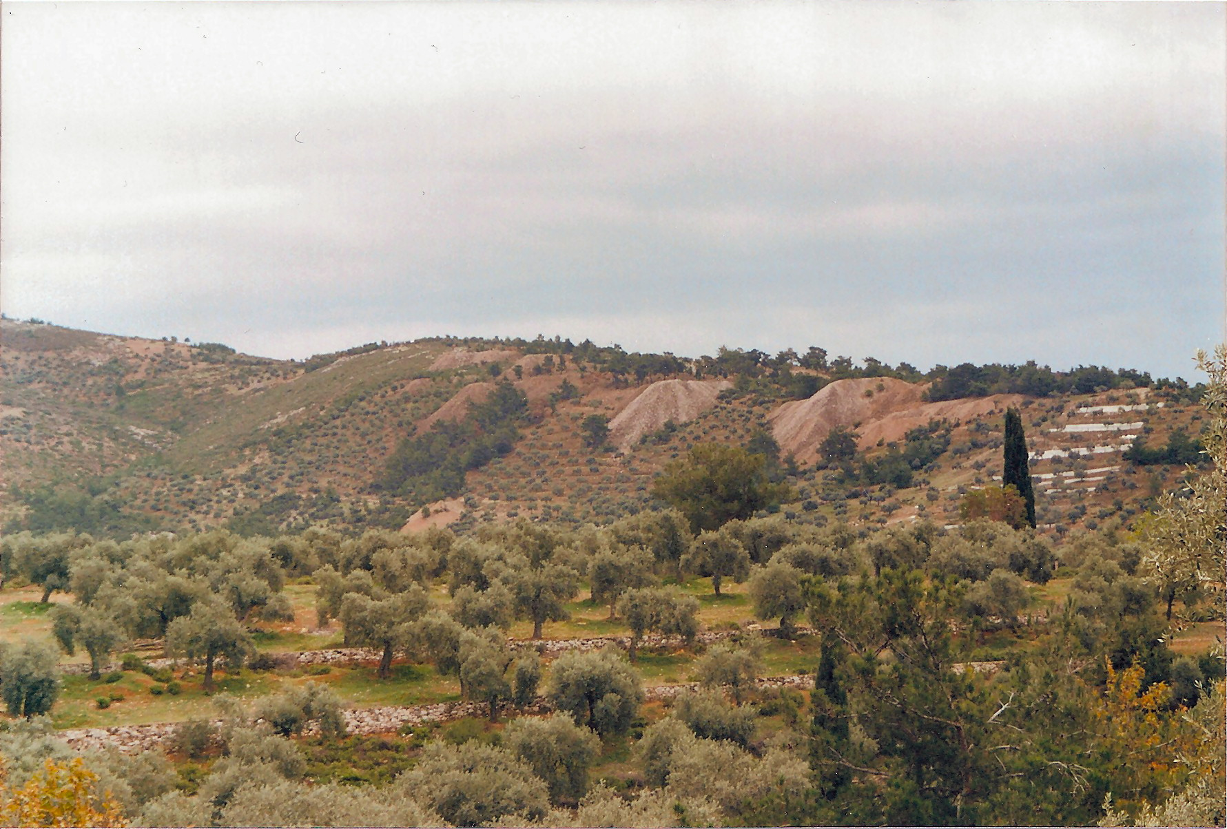 Vouves Pb-Zn mine